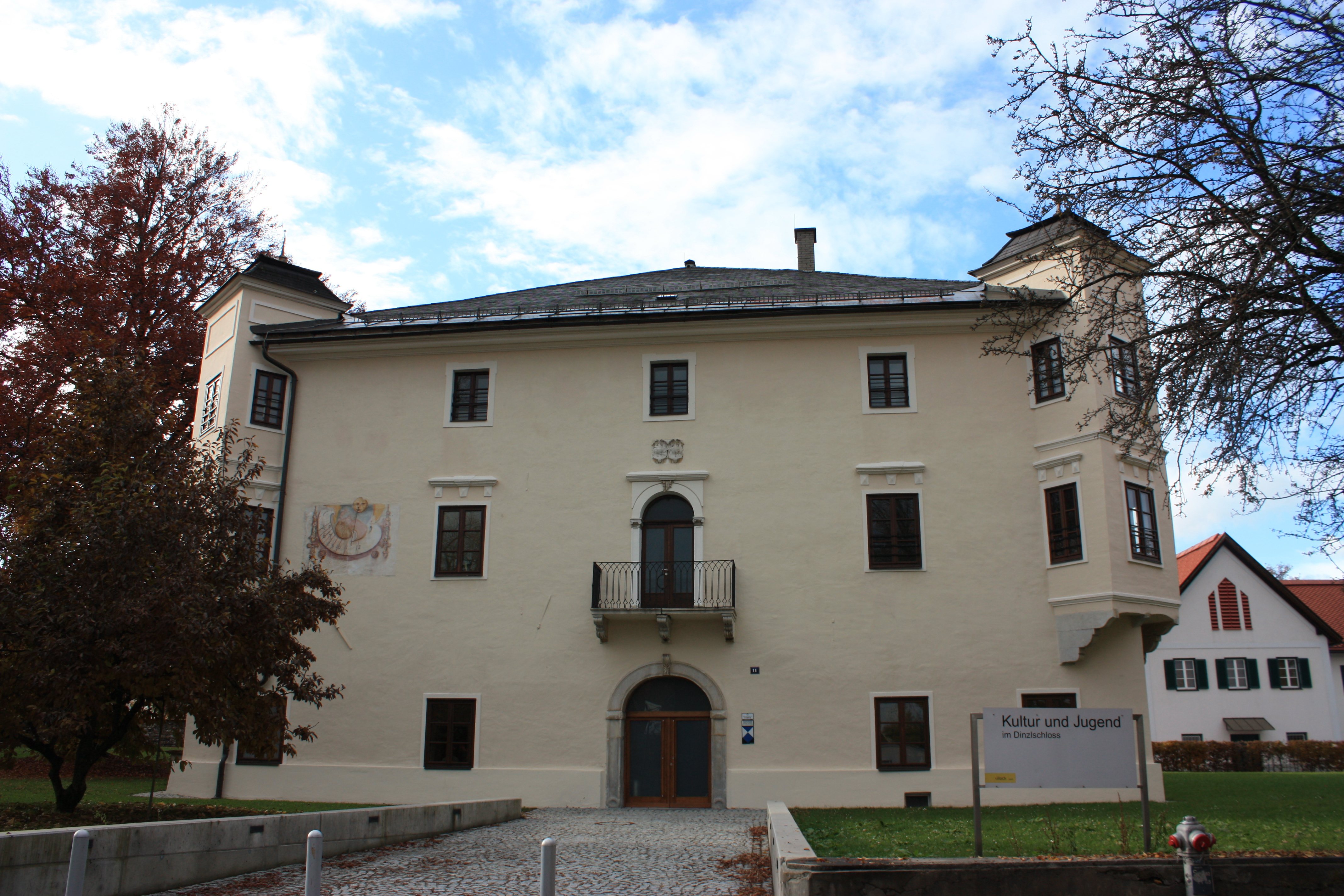 Dinzl-castle Locality: Schloßgasse Community:Villach